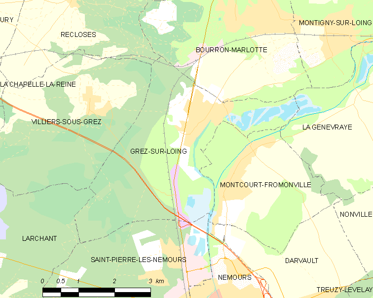 Map of French municipality Grez-sur-Loing